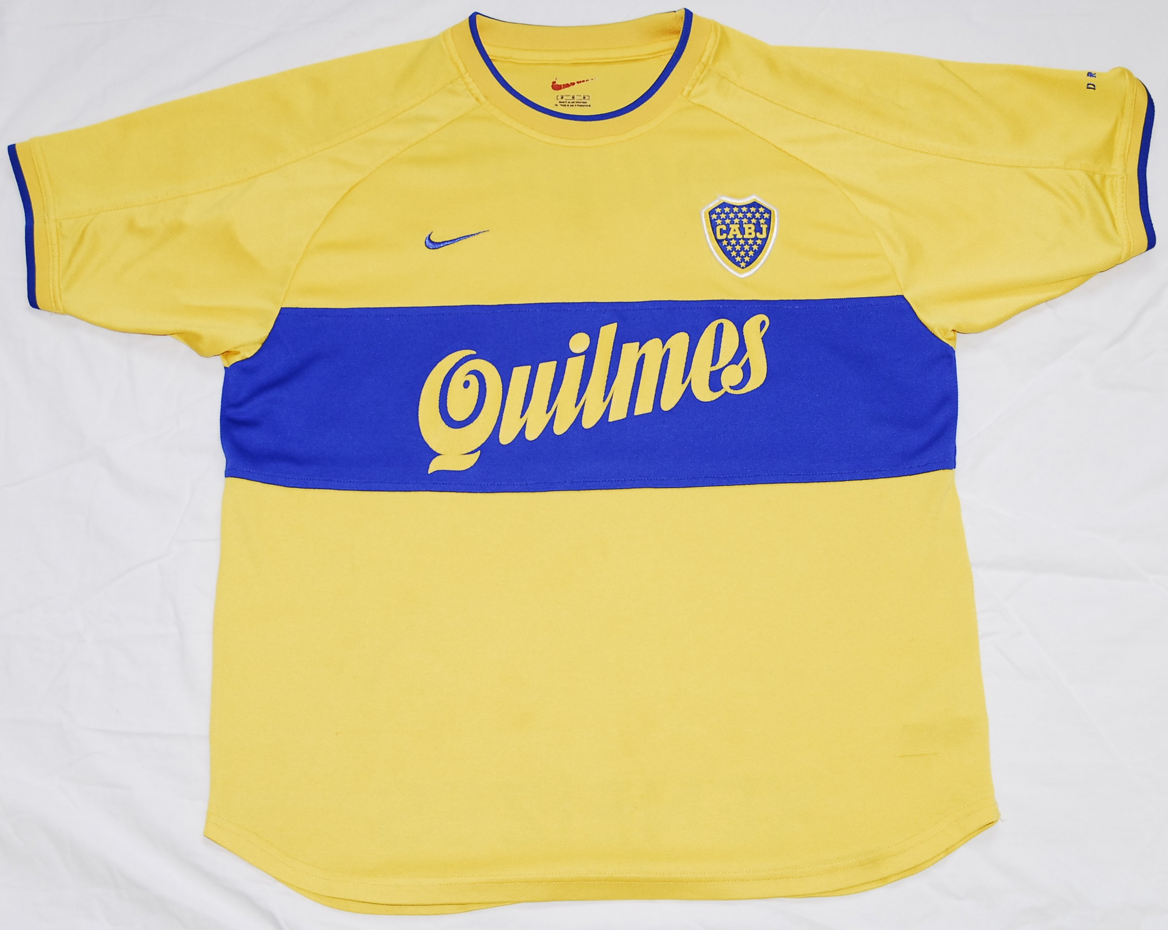 Boca Juniors 2000 Away Jersey